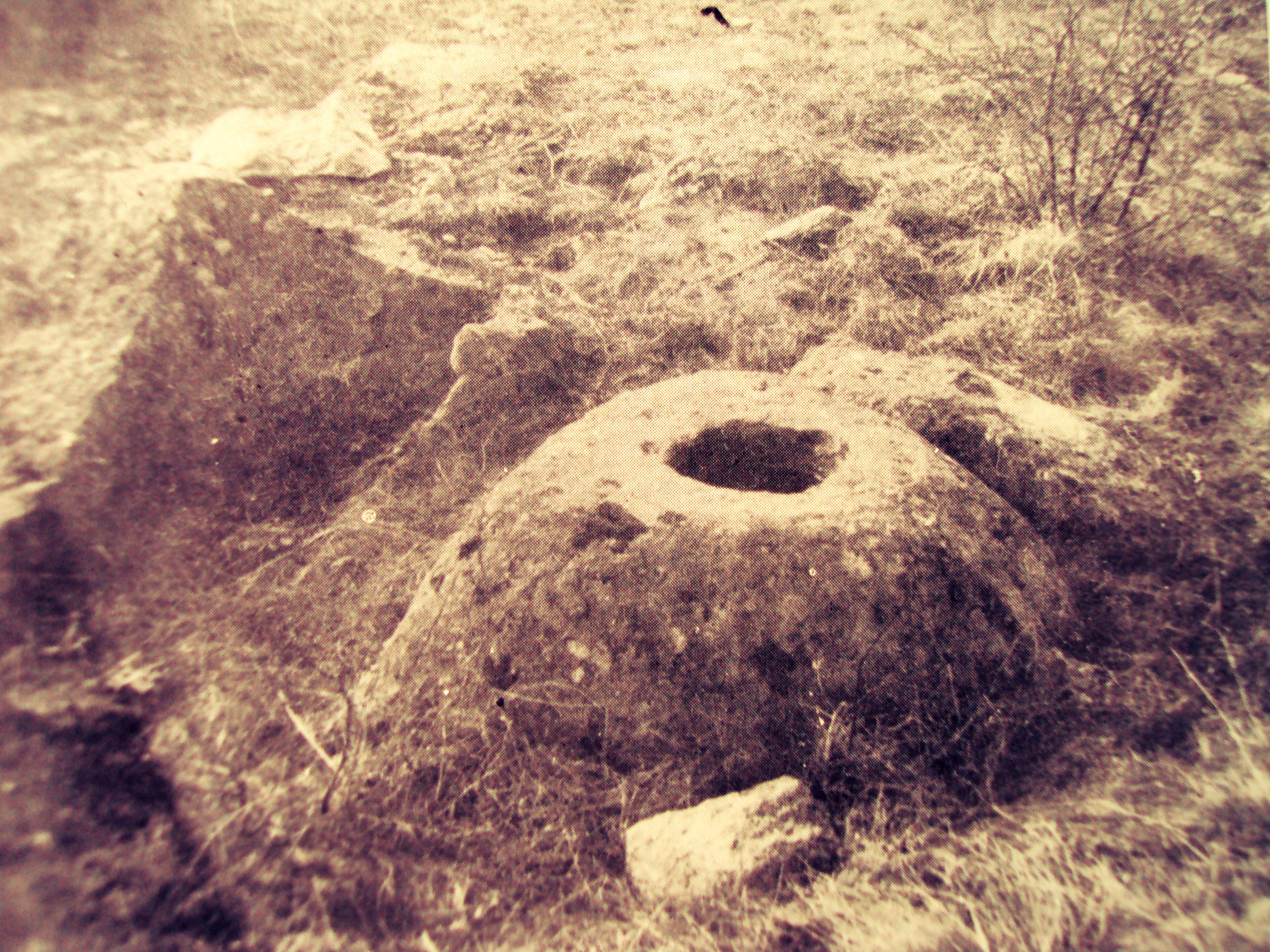 Sacred spot Znepole BG